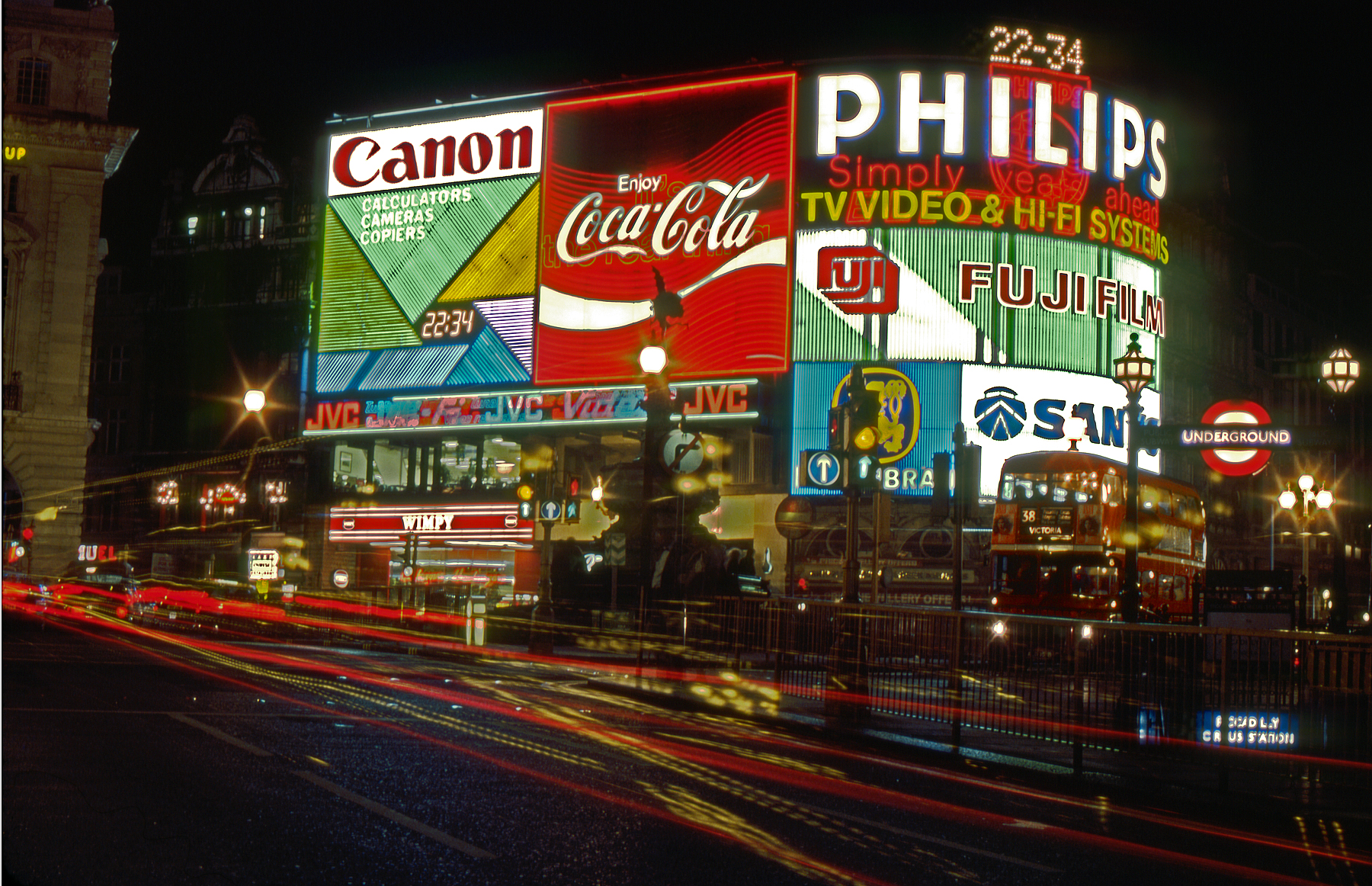 Picadilly Circus street at night-Sept. 19, 1983. Taken near Picadilly Circus Underground. Victoria Bus 38 at its stop nearby. Minolta XE-7 35mm camera, Kodachrome 25 (KM) slide film with a 12 sec @ f16 exposure.